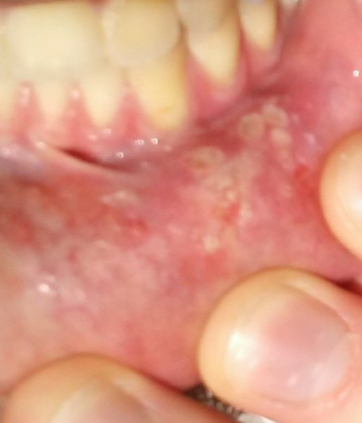 Multiple trauma induced ulcers can be seen on the inside lining of the lower mouth.